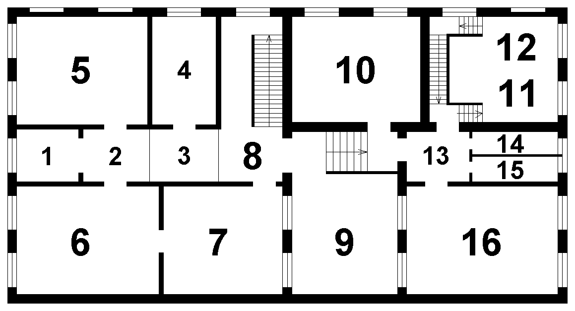 Schematical plan of the ground floor of the Couven Museum